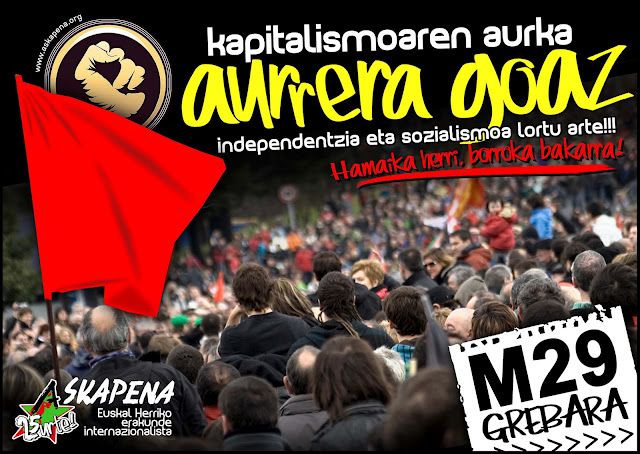 Askapena internationalist organization poster.